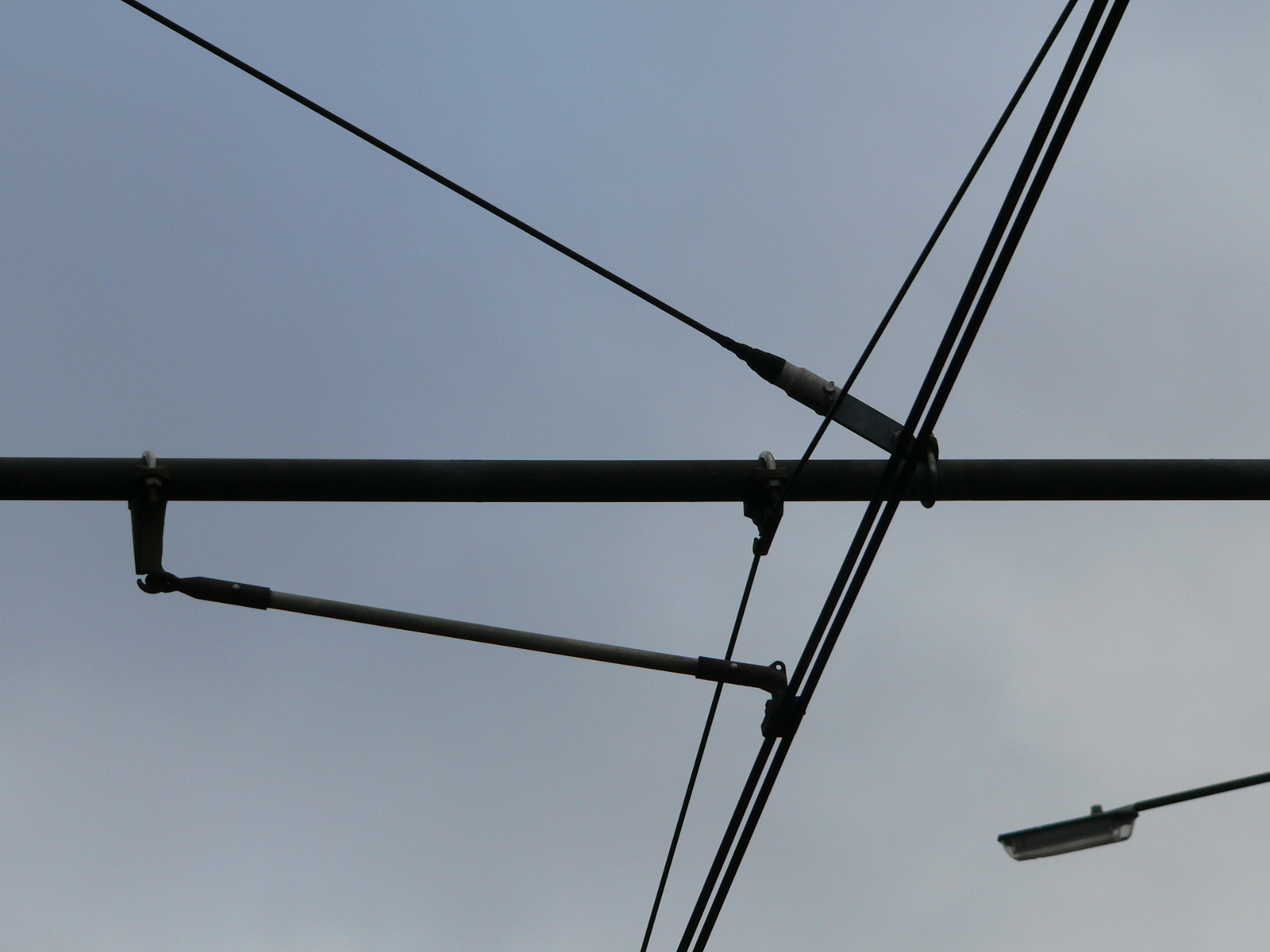 A closeup of the OHLE at Morden Road Tramlink stop. Two 11.5mm wires electrified at a nominal 750v DC supply the motive power to the trams.